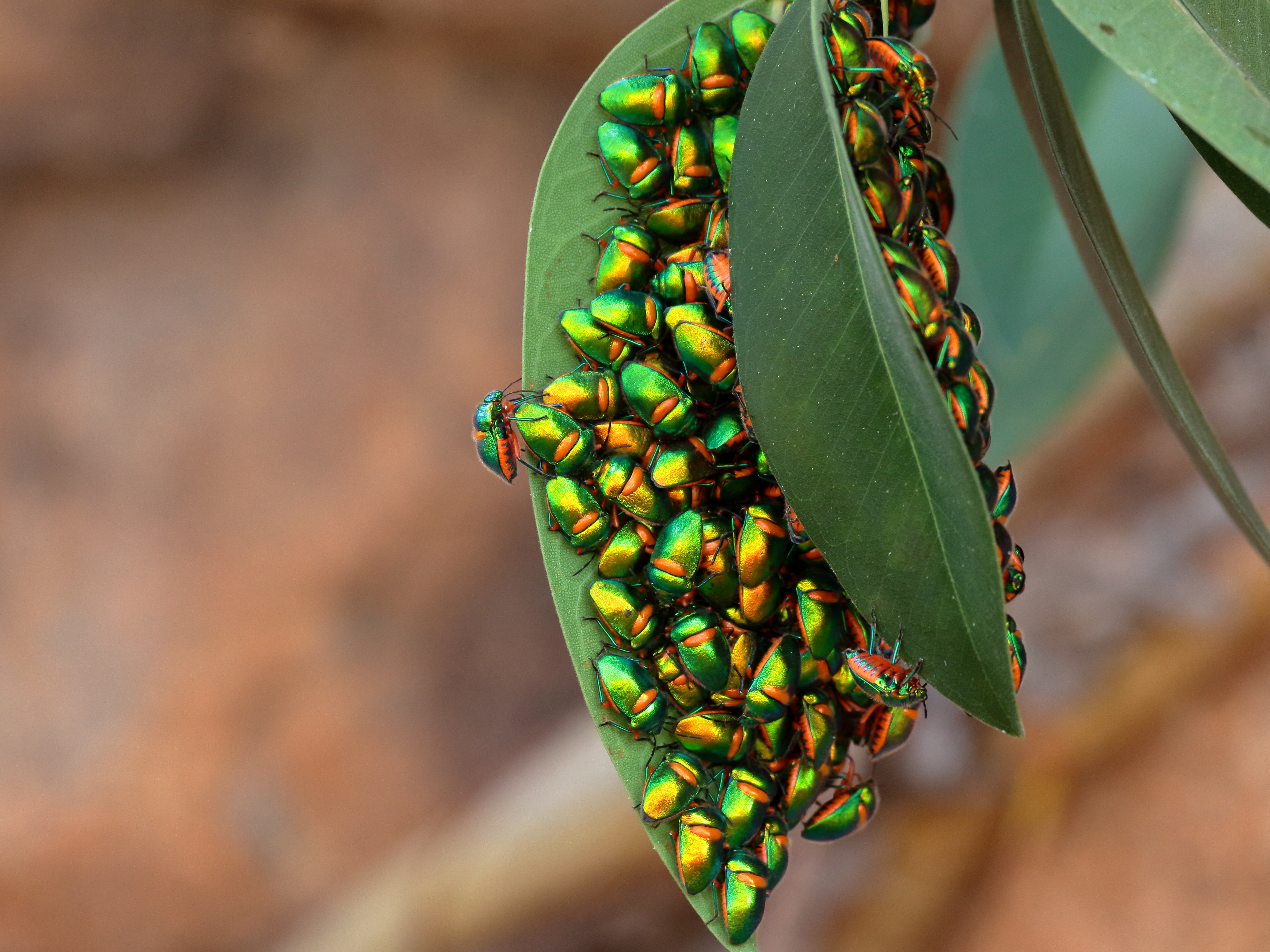 Green Jewel Bugs (Lampromicra senator) found at Emu Creek, near Petford, Queensland, Australia.